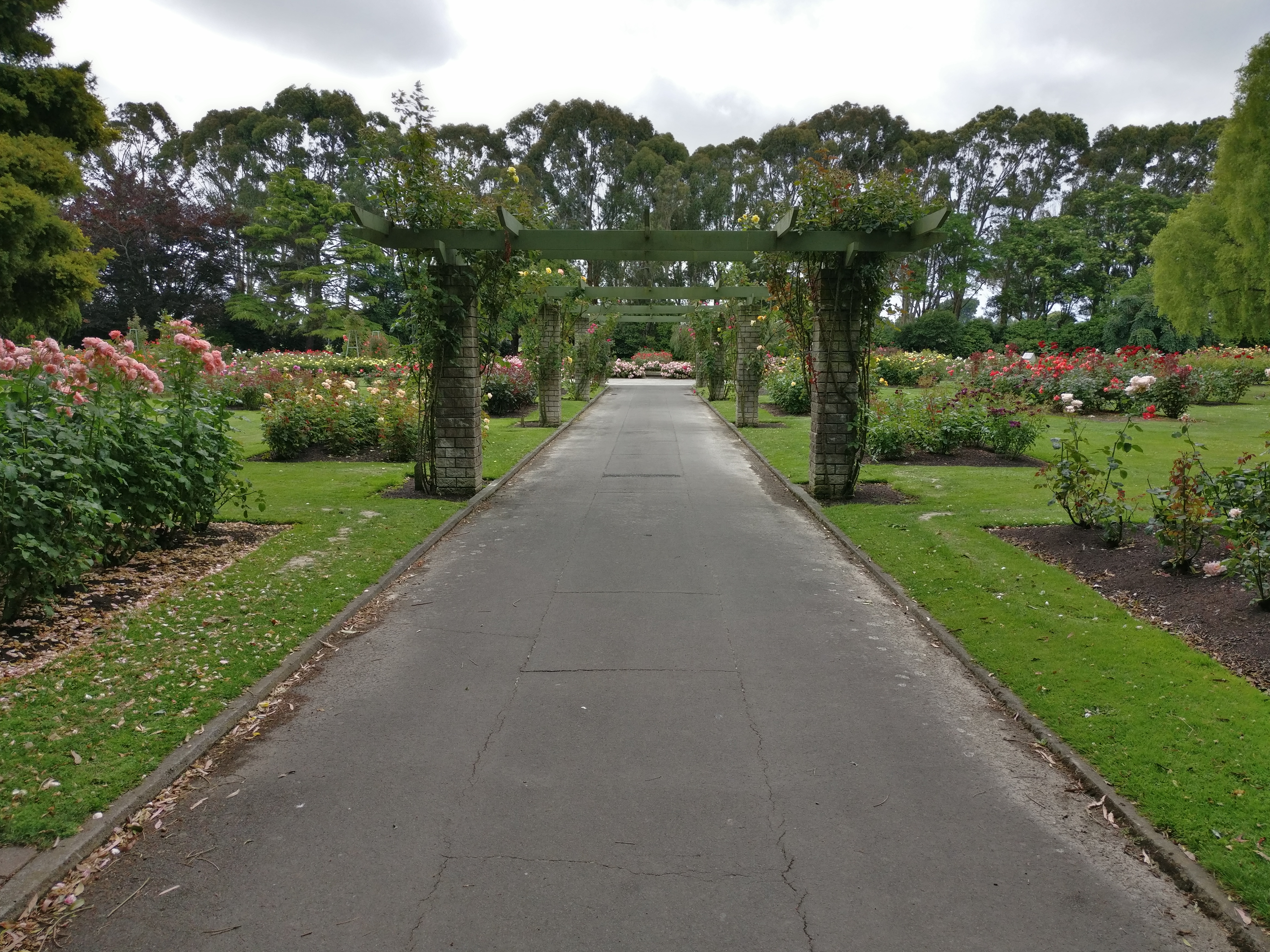 The east entrance to the Dugald McKenzie Rose Garden in Palmerston North, New Zealand.